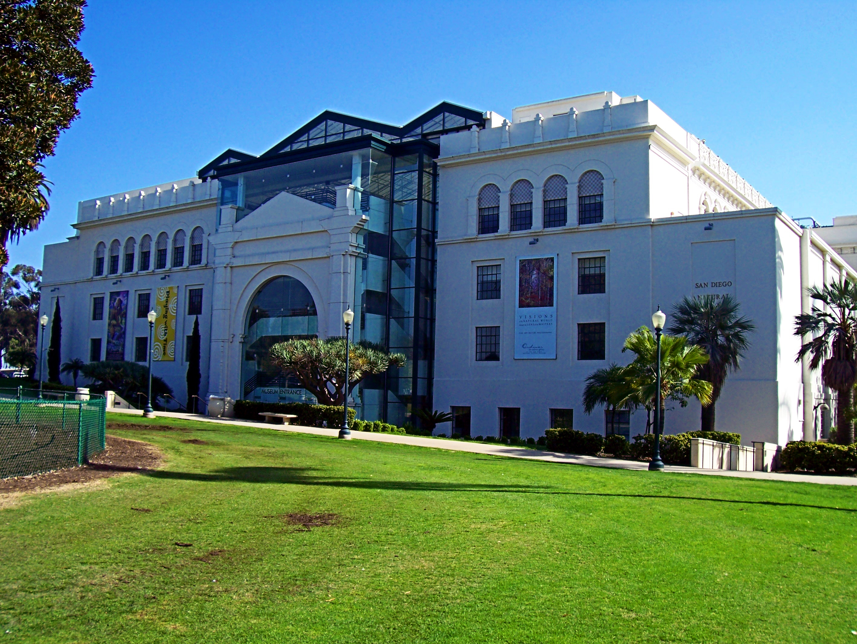 Balboa Park